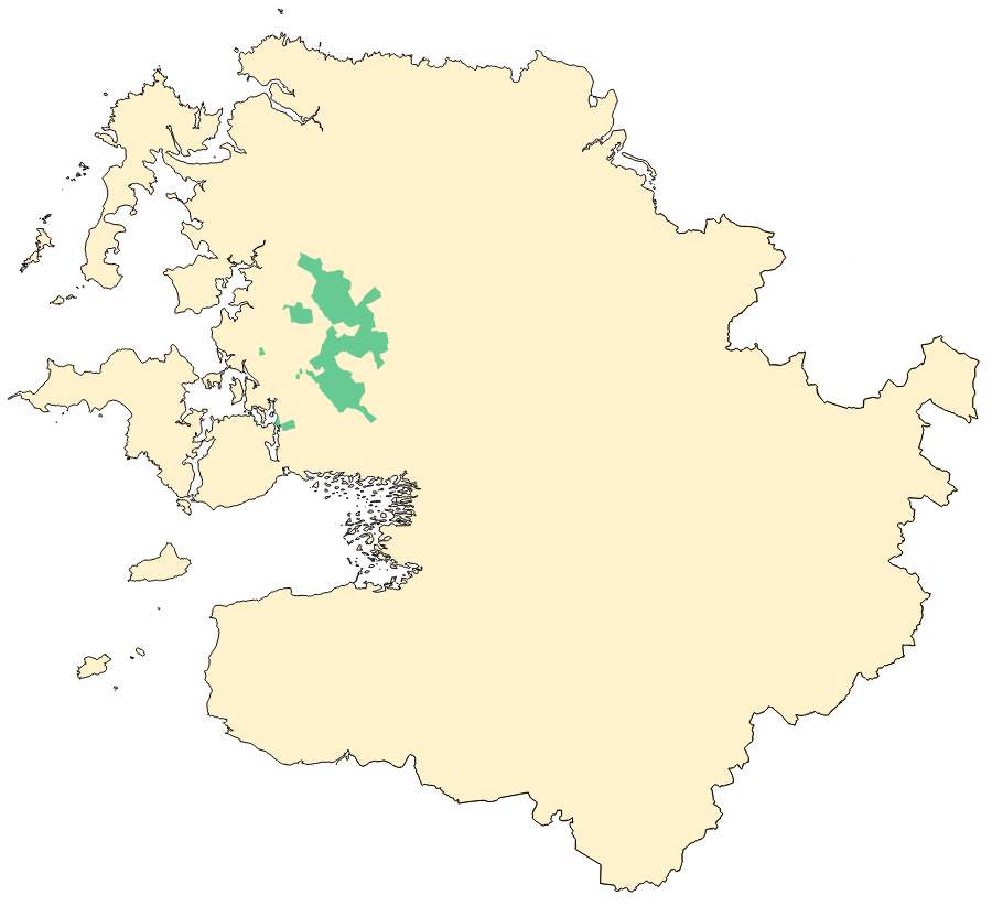 Map of Ballycroy National Park, within Co. Mayo, Ireland